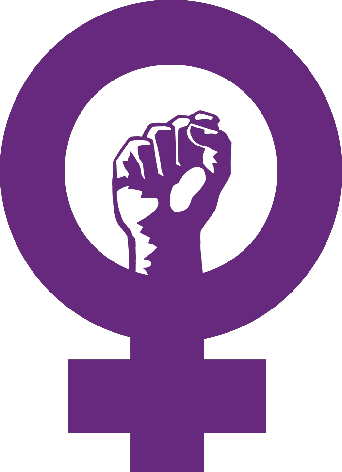 Venus symbol with clenched fist